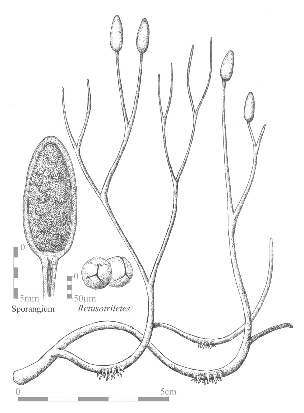 Artistic reconstruction of the Lower Devonian plant Aglaophyton major described from fossil remains in the Rhynie Chert. The upright form and dichotomous branching of the cylindrical aerial stems is shown along with the terminal fusiform sporangia. The rhizome, also cylindrical and dichotomously branching, is creeping, subaerial and has characteristic undulations. Where it is in contact with the substrate it has unicellular rhizoids (which are exaggerated in the illustration for ease of interpretation). Next to the main drawing there are drawings of a longitudinal section of the sporangium and of spores of the genus Retusotriletes, usually assigned to this species. A separate scale is given for each of the three elements.